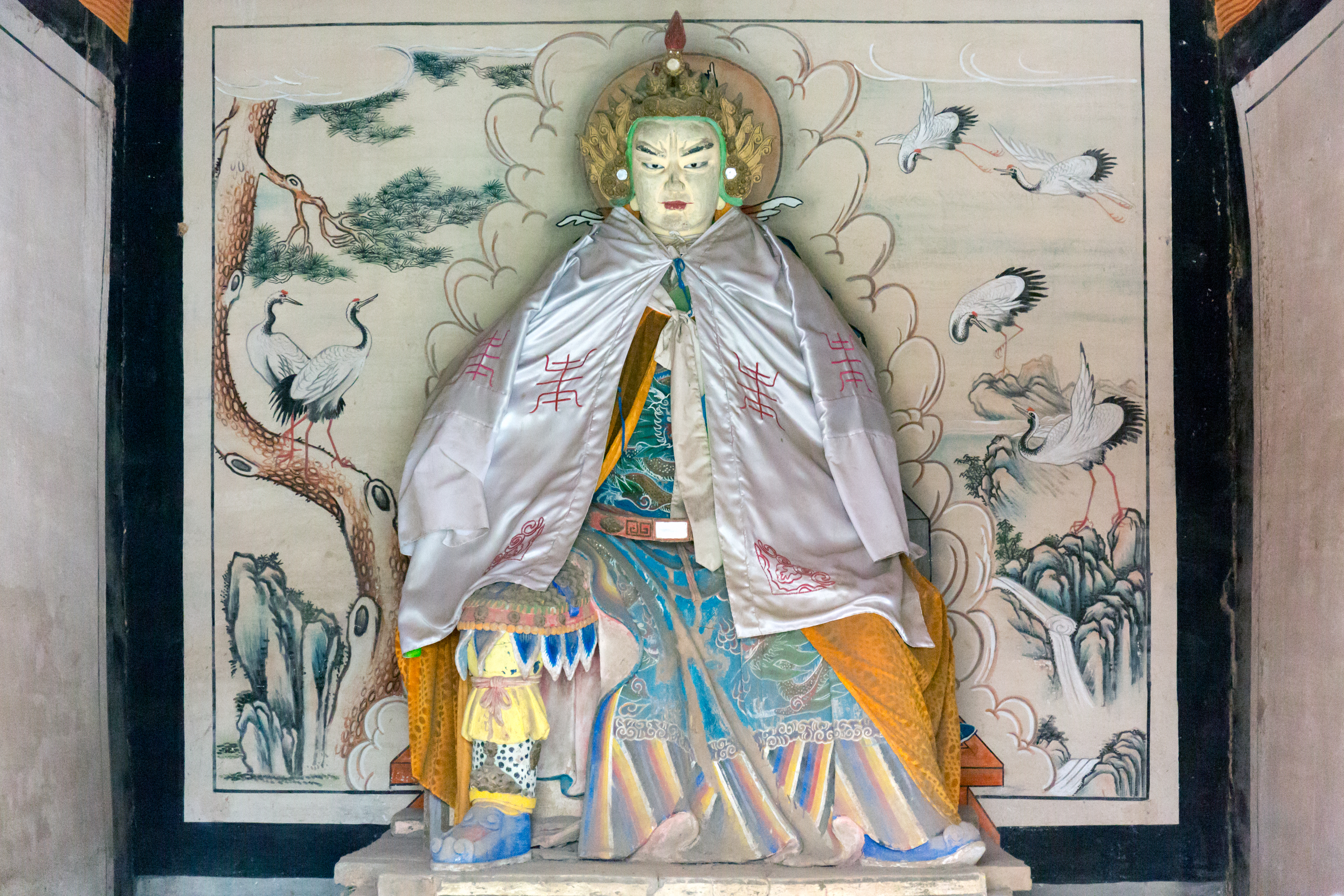 Yang Yi (楊儀)